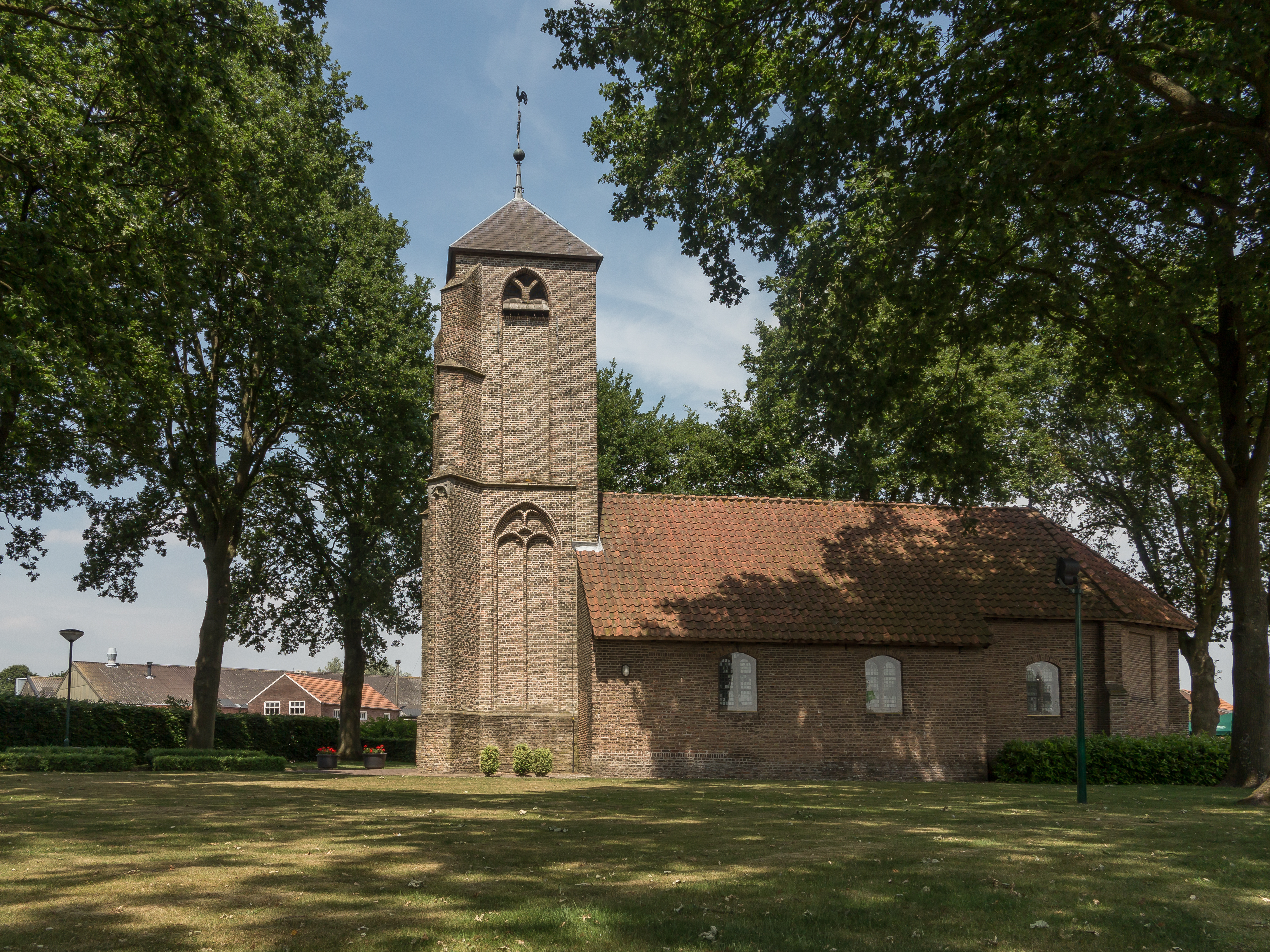 Galder, chapel: de Sint Jacobskapel